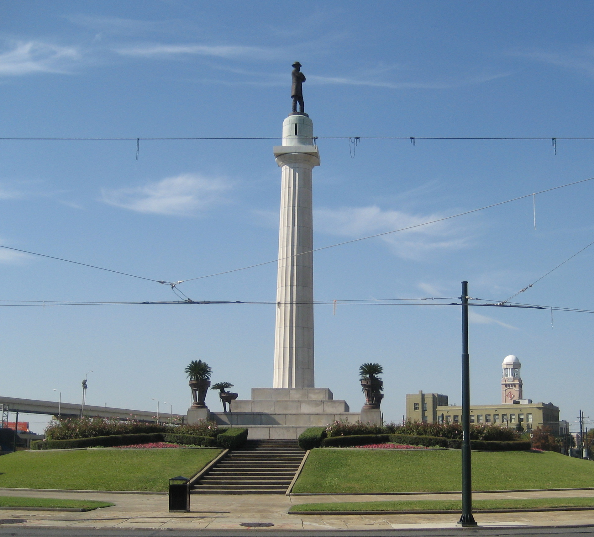 Robert E. Lee Memorial Column in Lee Circle park, central New Orleans. Statue of Lee by Alexander Doyle.